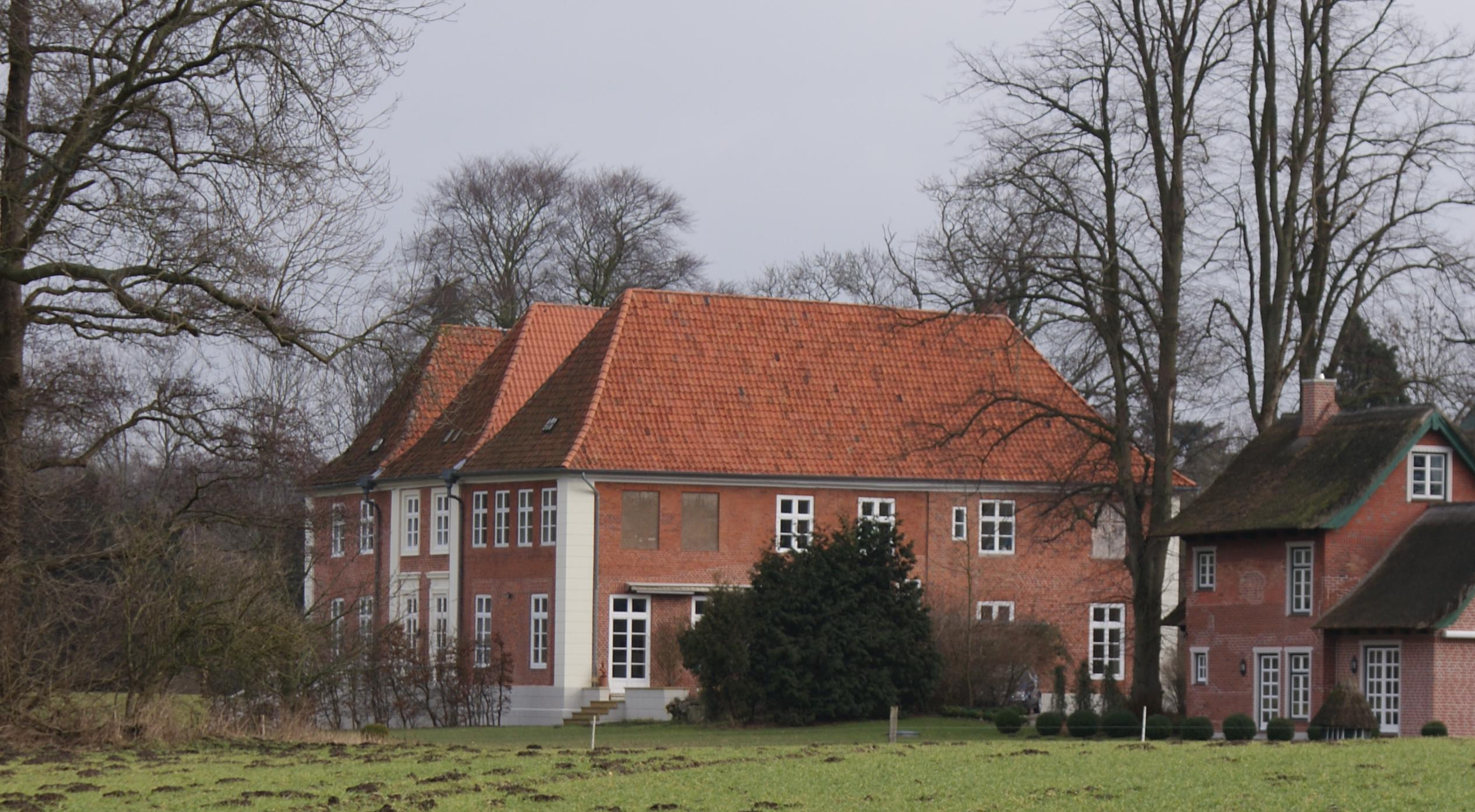 Ehlerstorf Manor